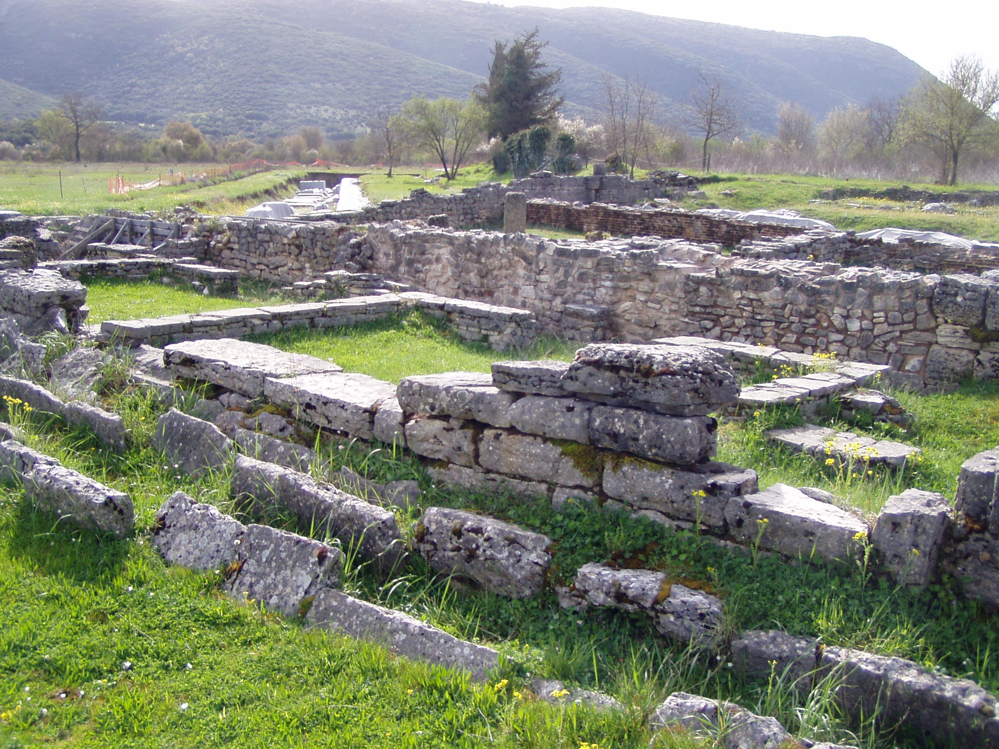 This is the Prytaneion in Dodona.